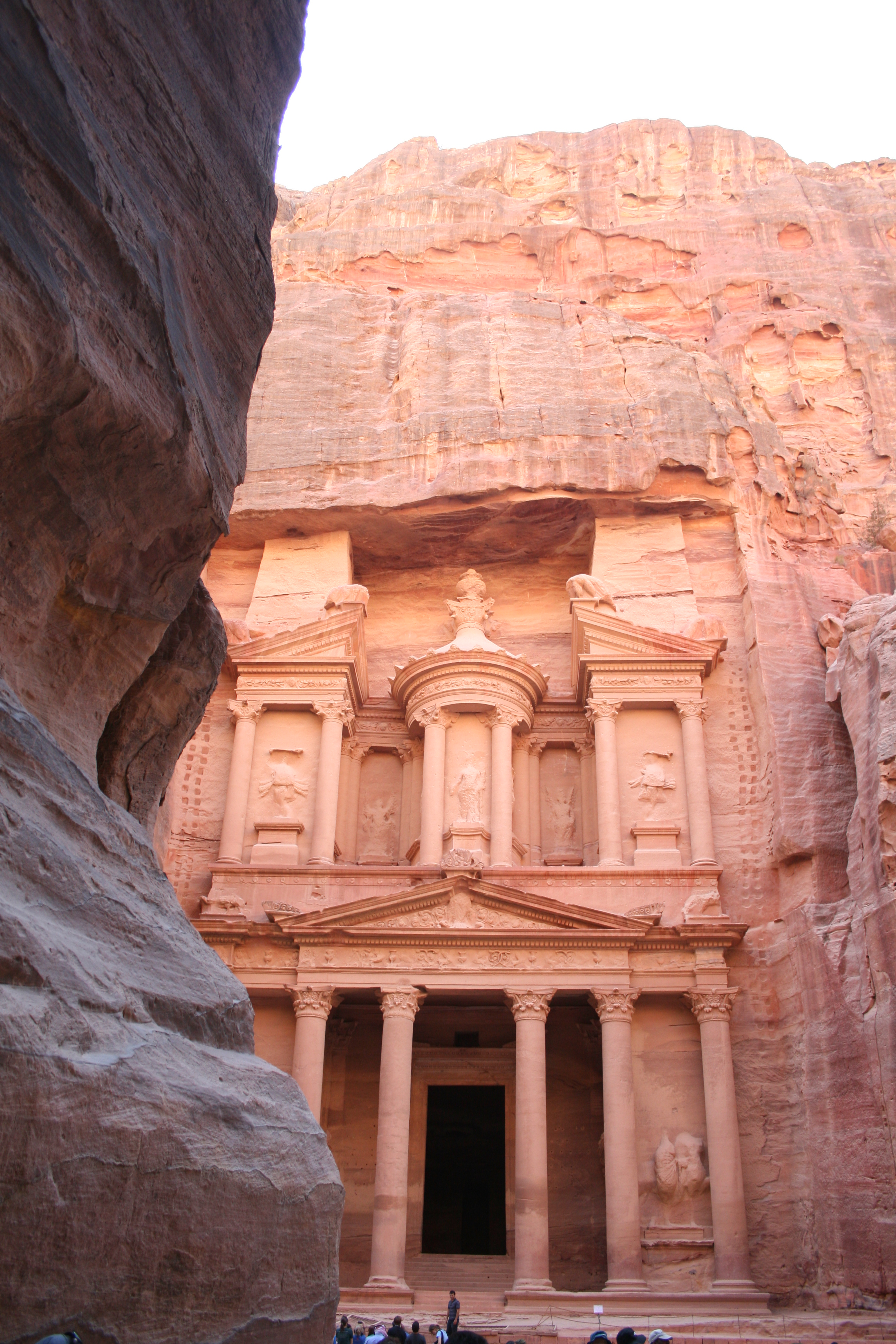 The Treasury, Petra, Jordan